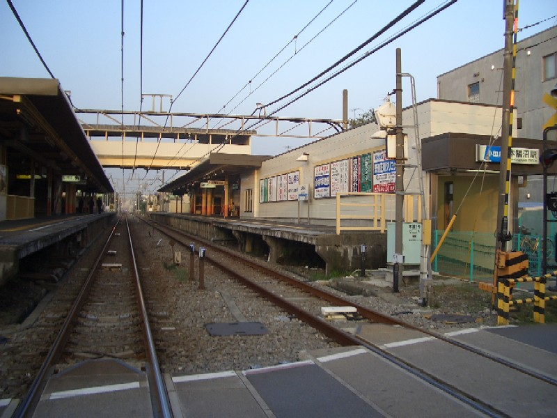 Hon-Kugenuma Station platforms, on the Odakyu Enoshima Line, Fujisawa, Kanagawa 本鵠沼駅